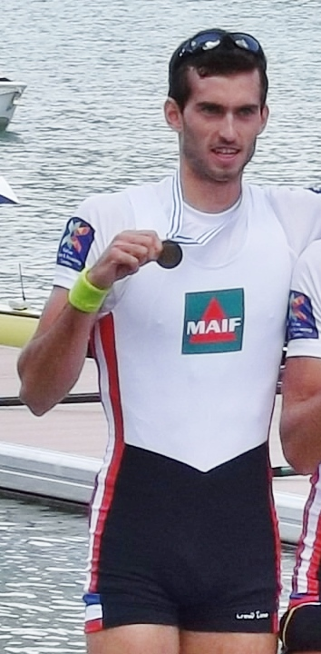 Sight of four French rowers showing to the (mostly French) public their bronze medal, during the 2015 World Rowing Championships, on the lac d'Aiguebelette lake, in Savoie, France.